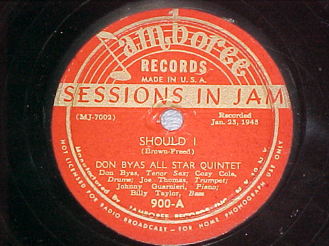 don dyas all-stras should i shellack